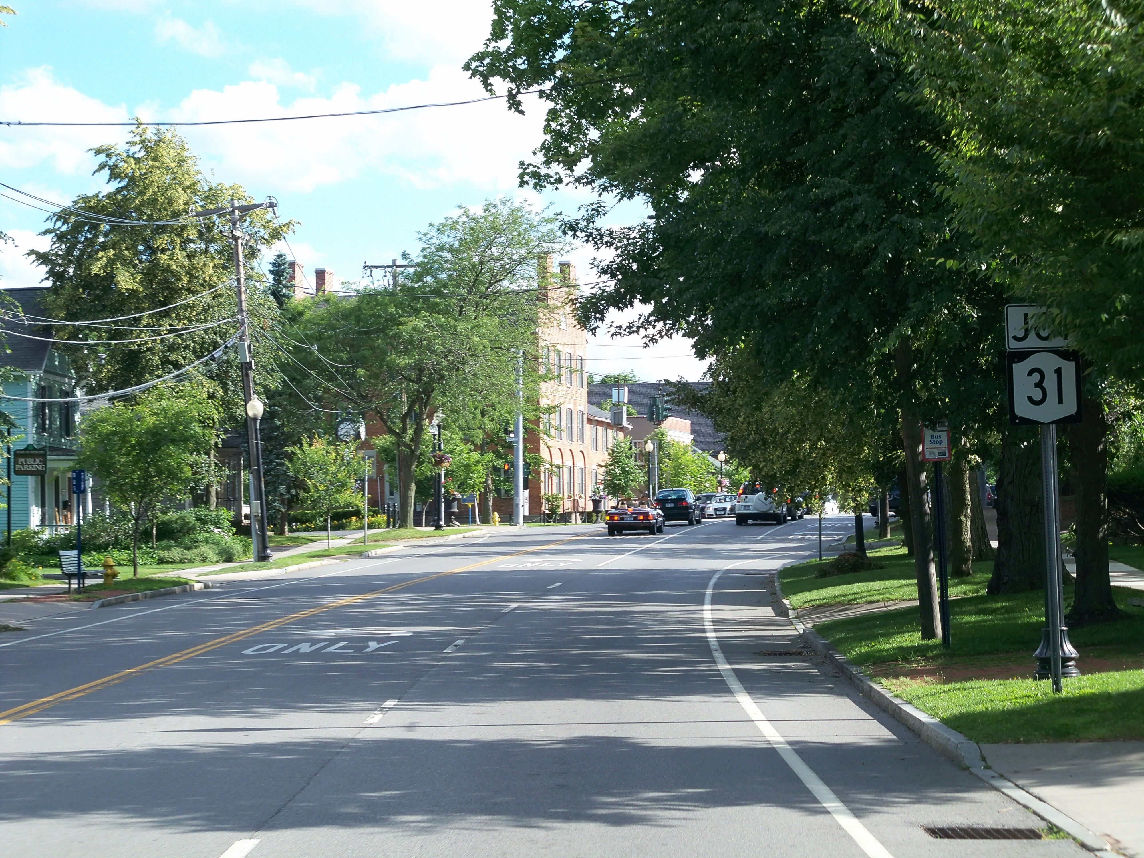 Southbound on New York State Route 96 at New York State Route 31 in the village of Pittsford.